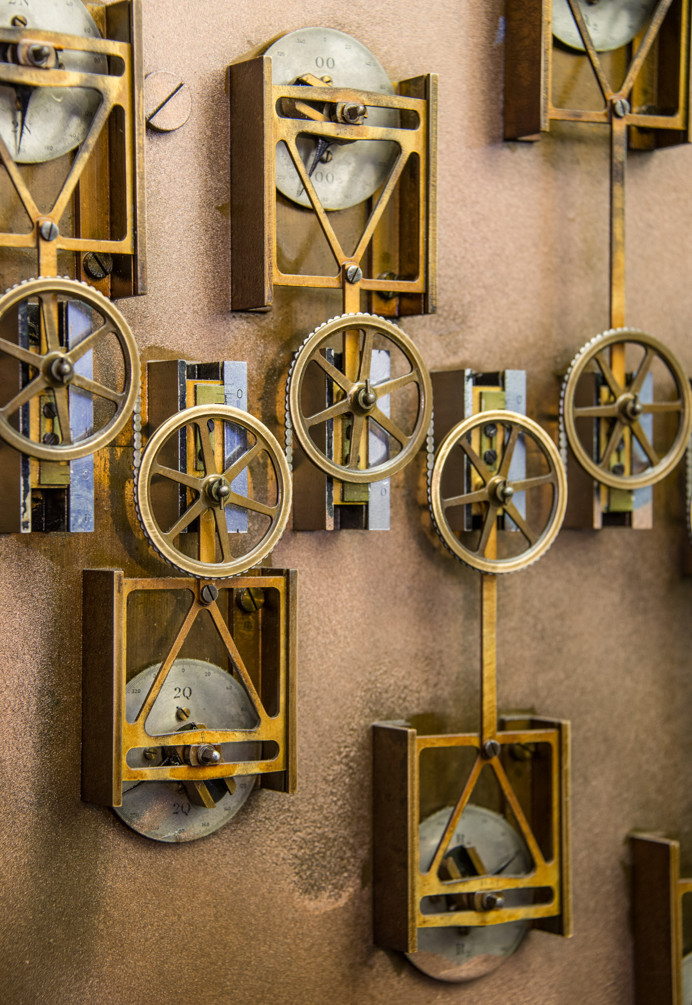 These components perform key computations for Tide Predicting Machine No. 2, a special purpose mechanical analog computer for predicting the height and time of high and low tides. The tide prediction formula implemented by the machine includes the addition of a series of cosine terms. The triangular metal pieces are part of slotted yoke cranks which convert circular motion to a vertical motion that traces a sinusoid. Each slotted yoke crank is connected by a shaft to a pulley, which causes the pulley to follow the sinusoidal motion. A chain going over and under pulleys sums each of their deflections to compute the tide.The U.S. government used Tide Predicting Machine No. 2 from 1910 to 1965 to predict tides for ports around the world. The machine, also known as “Old Brass Brains,” uses an intricate arrangement of gears, pulleys, chains, slides, and other mechanical components to perform the computations.A person using the machine would require 2-3 days to compute a year’s tides at one location. A person performing the same calculations by hand would require hundreds of days to perform the work. The machine is 10.8 feet (3.3 m) long, 6.2 feet (1.9 m) high, and 2.0 feet (0.61 m) wide and weighs approximately 2,500 pounds (1134 kg). The operator powers the machine with a hand crank.